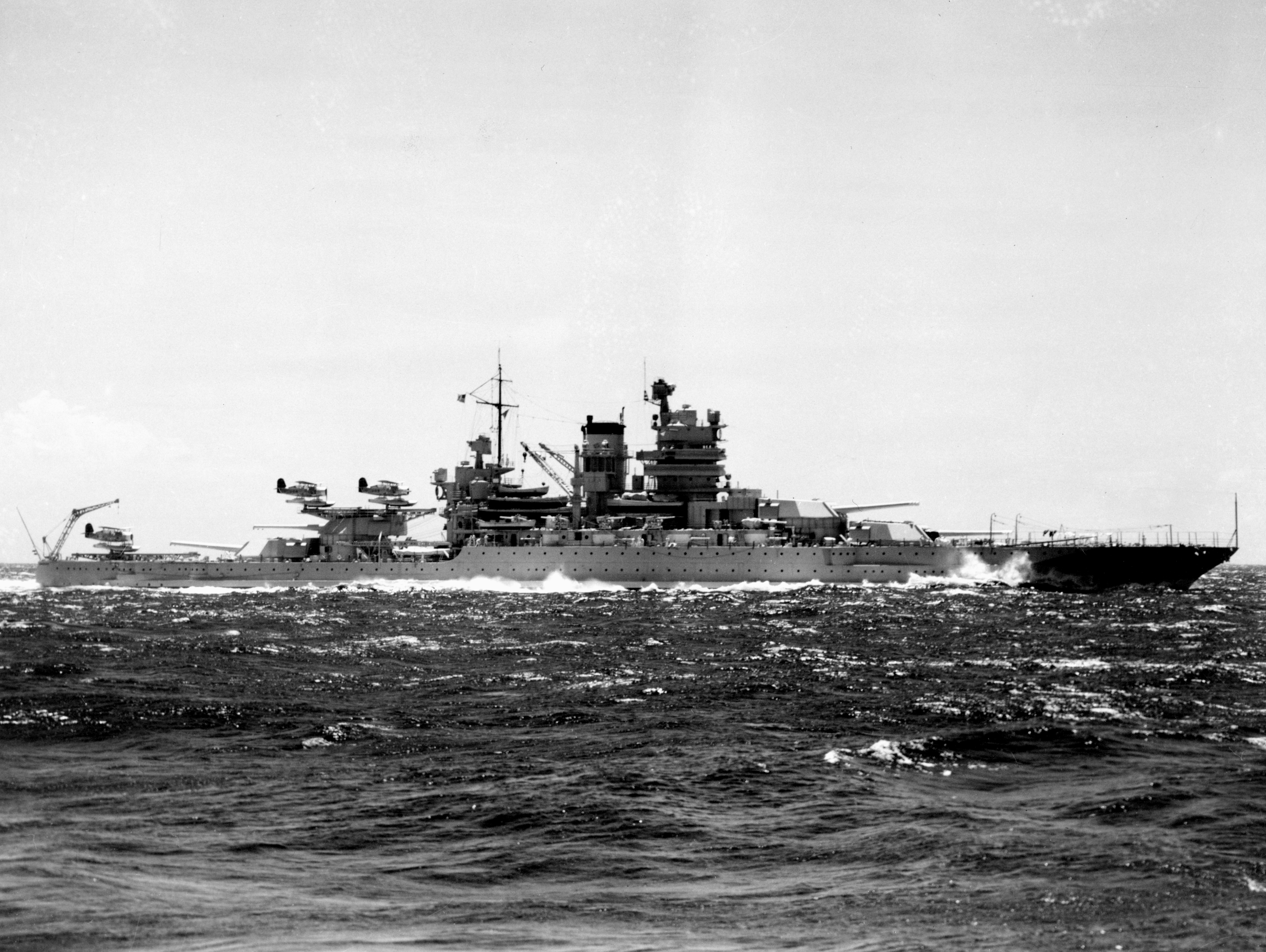 The U.S. Navy battleship USS Mississippi (BB-41) operating at sea during the later 1930s. She has three Curtiss SOC Seagull aircraft on her catapults.